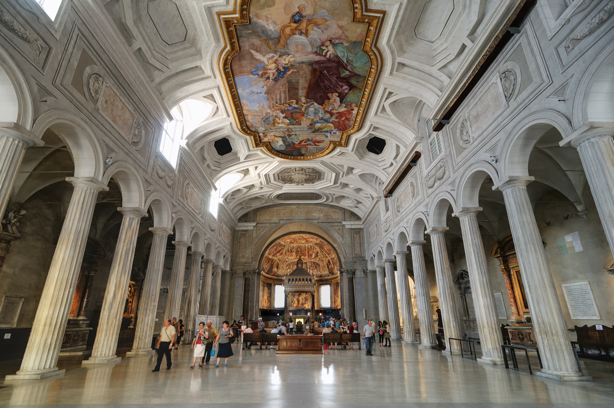 The interior of San Pietro in Vincoli, Rome